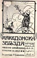 Makedonska_Zvezda